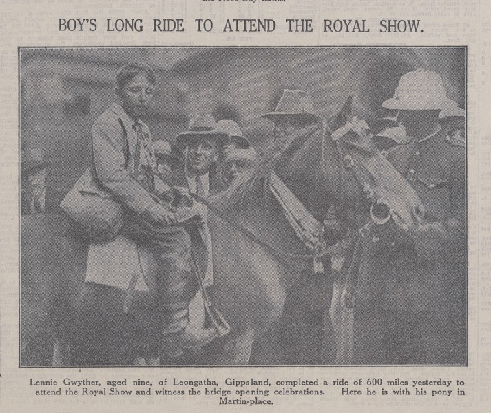 Newspaper article from 1932.